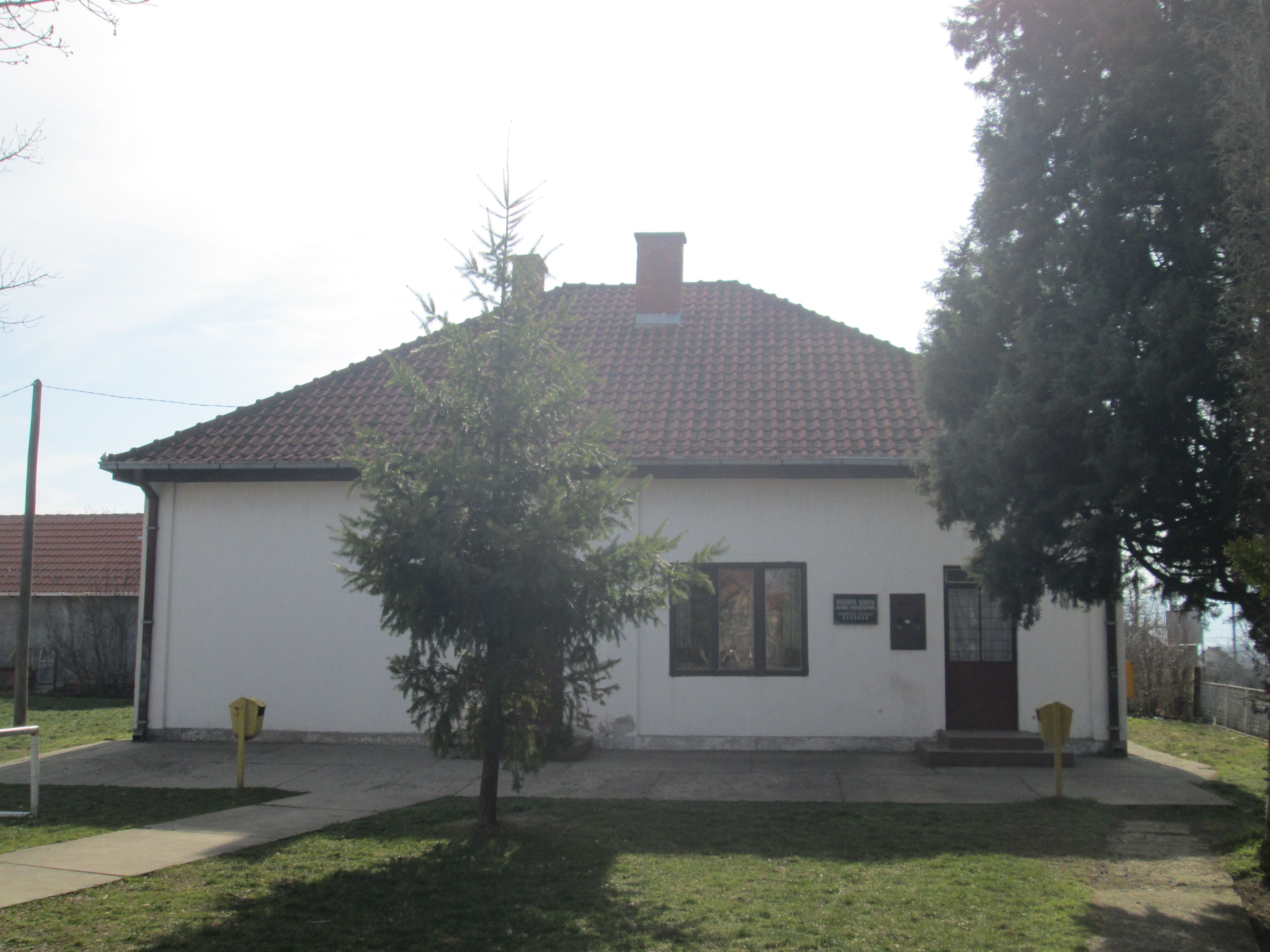 Primary school "Jelica Milovanović", Djurinci Српски (ћирилица): Основна школа „Јелица Миловановић“, Ђуринци